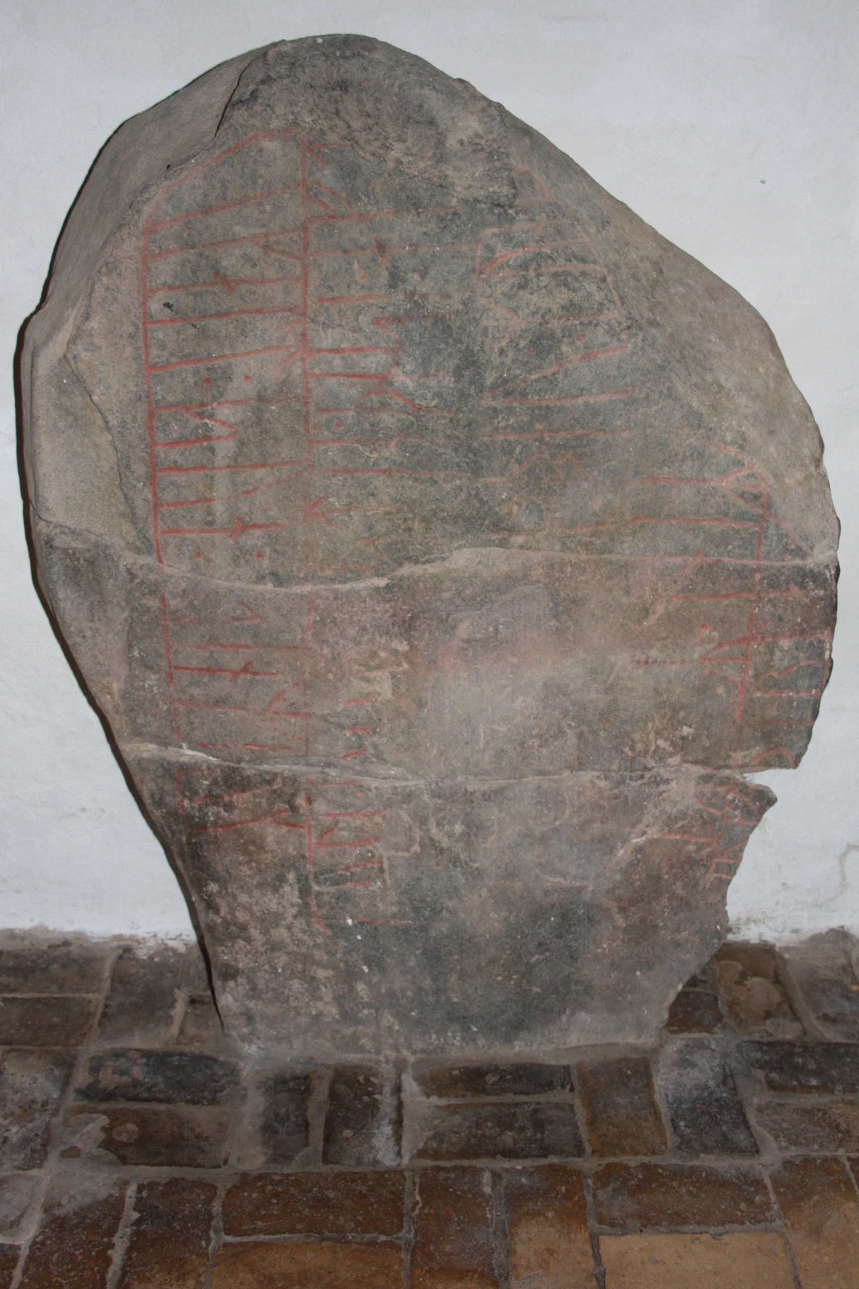 Runestone (Ålum 1) at Ålum Church in Mid-Jutland, Denmark. Runesten (Ålum 1) i våbenhuset ved Ålum kirke øst for Randers